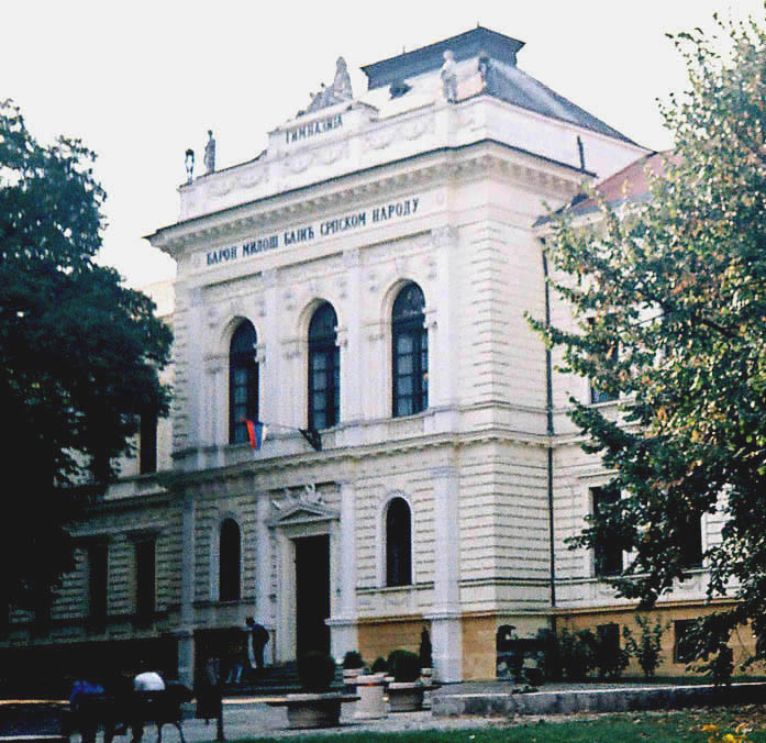 Gymnasium Jovan Jovanović Zmaj in Novi Sad.